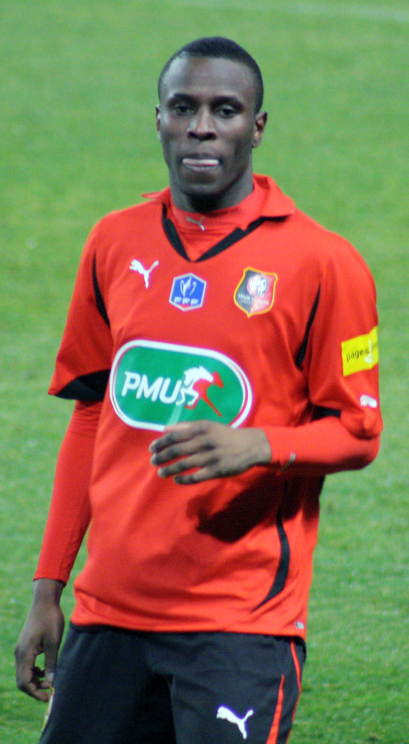 Razak Boukari, football player , with Rennes' jersey. French cup match against Cannes.